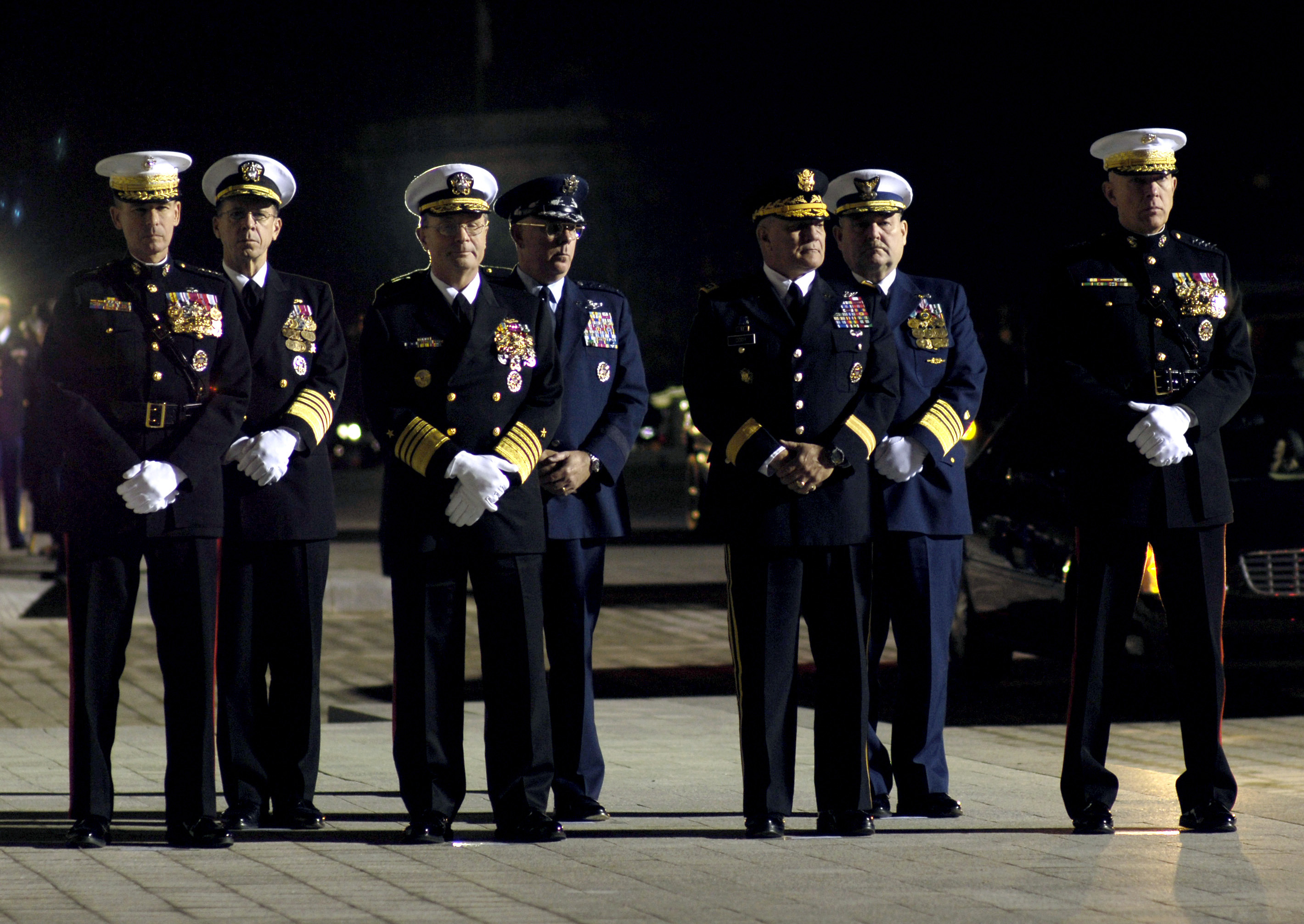 Washington, D.C. (Dec. 30, 2006) – The Joint Chiefs of Staff prepare for the arrival of the casket containing the body of former U.S. President Gerald Ford at the bottom of the East Steps to the U.S. House of Representatives, at the U.S. Capitol, for a memorial service. Ford died at his home in Rancho Mirage, California, Dec. 26 at the age of 93. A private interment service is scheduled for Jan. 3 at the Gerald R. Ford Presidential museum in Grand Rapids, Mich. Dept. of Defense photo by Staff Sgt. D. Myles Cullen (RELEASED)